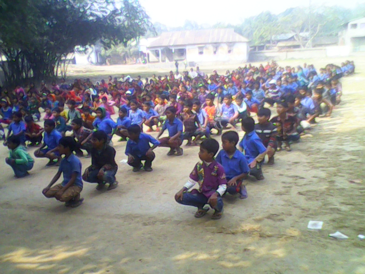 Students at the rally at Vangbariya Government Primary School premises.